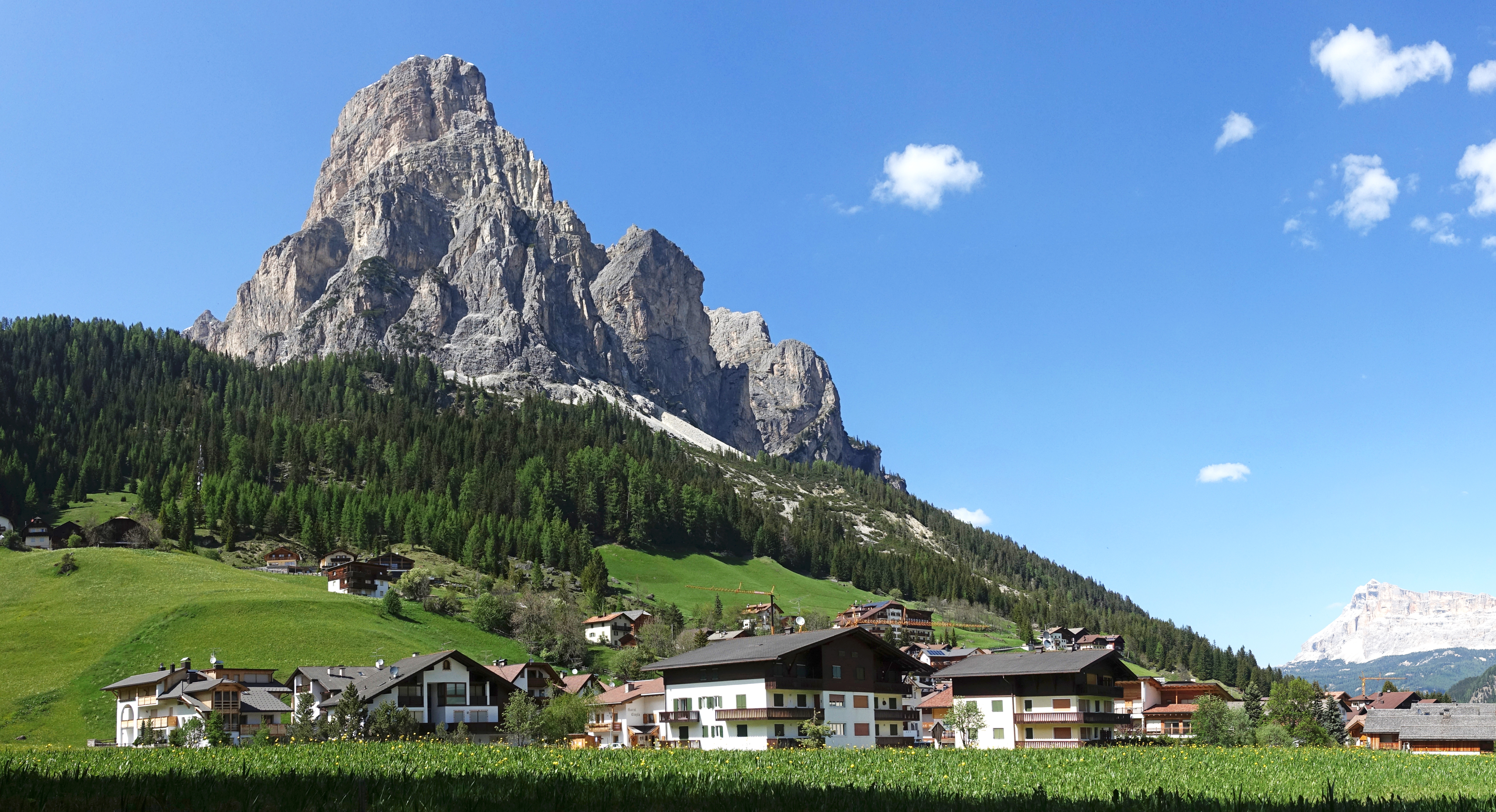 Sassongher mountain and Corvara in Badia, Italy.